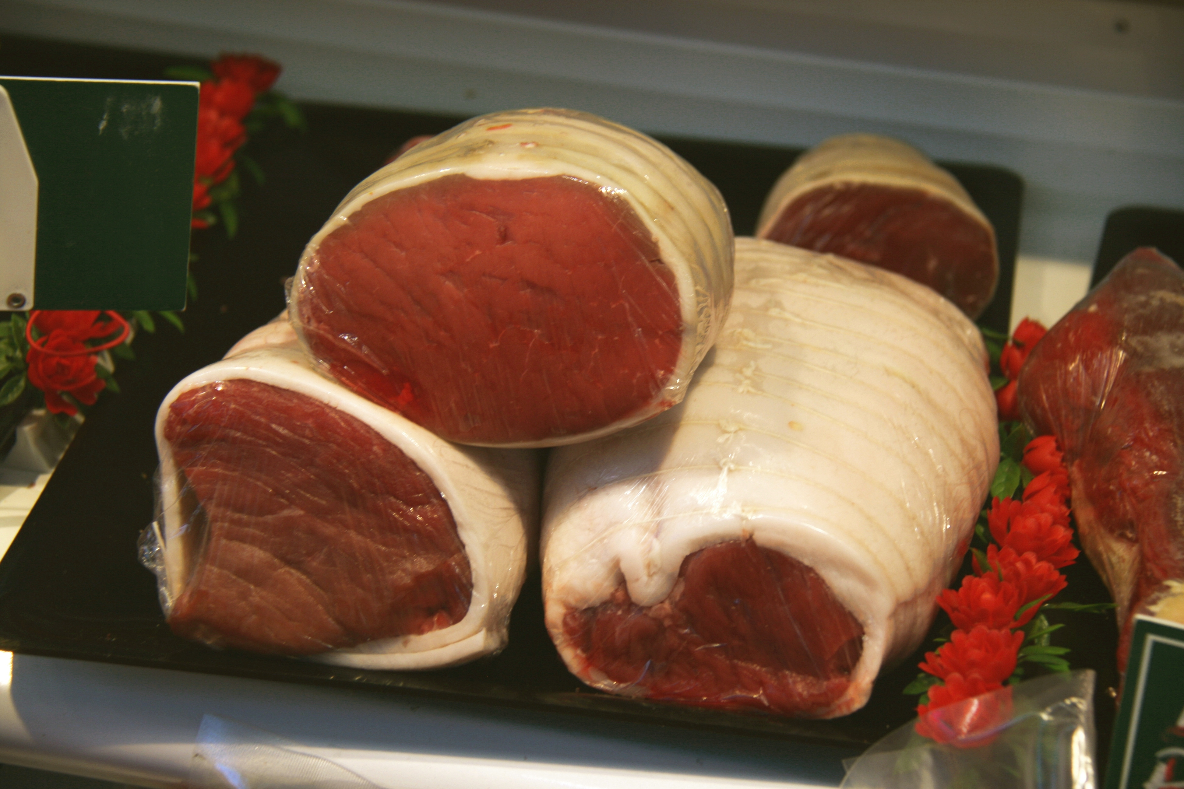 Tournedos